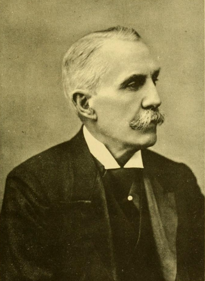 Sir James John Trevor Lawrence, 2nd Baronet, KCVO (30 December 1831 – 22 December 1913)